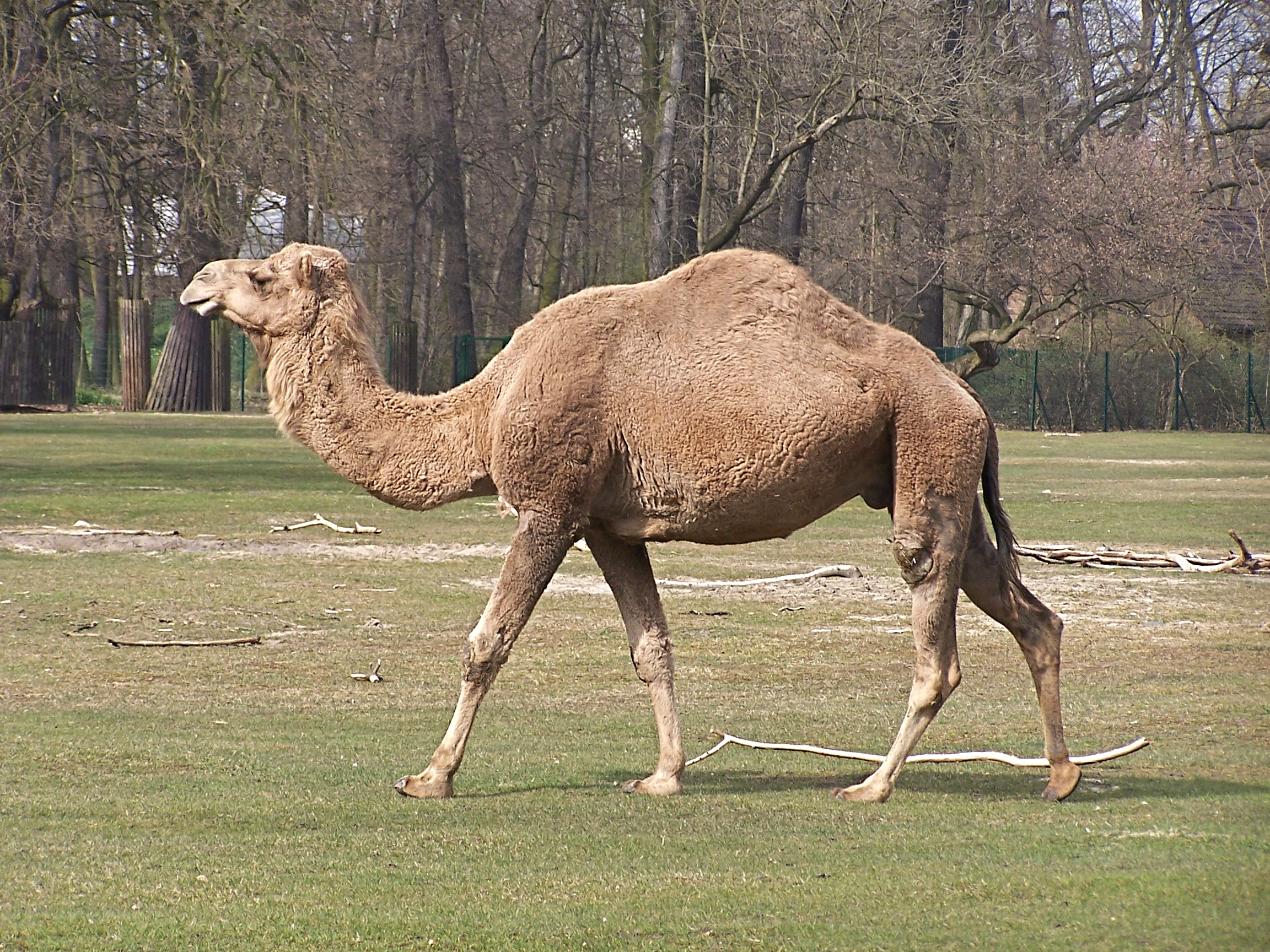 Camelus dromedarius (Dromedary) at Tierpark Berlin